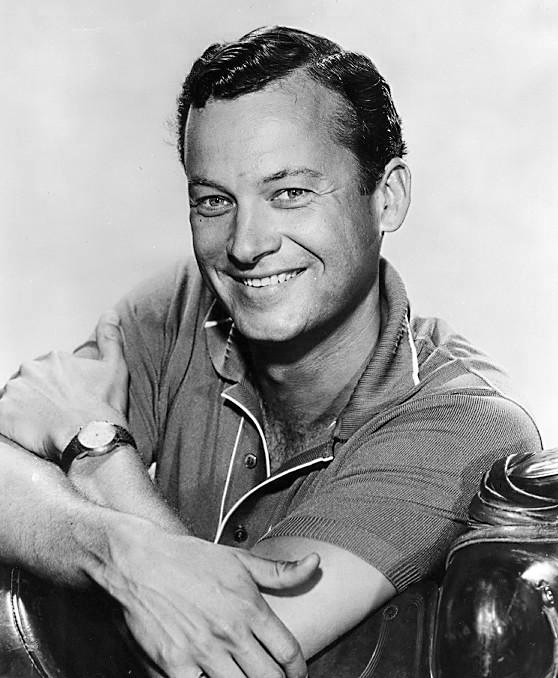 Photo of Mark Miller as Bill Hooten from the television program Guestward Ho!. Photo has been cropped and minor flaws fixed.